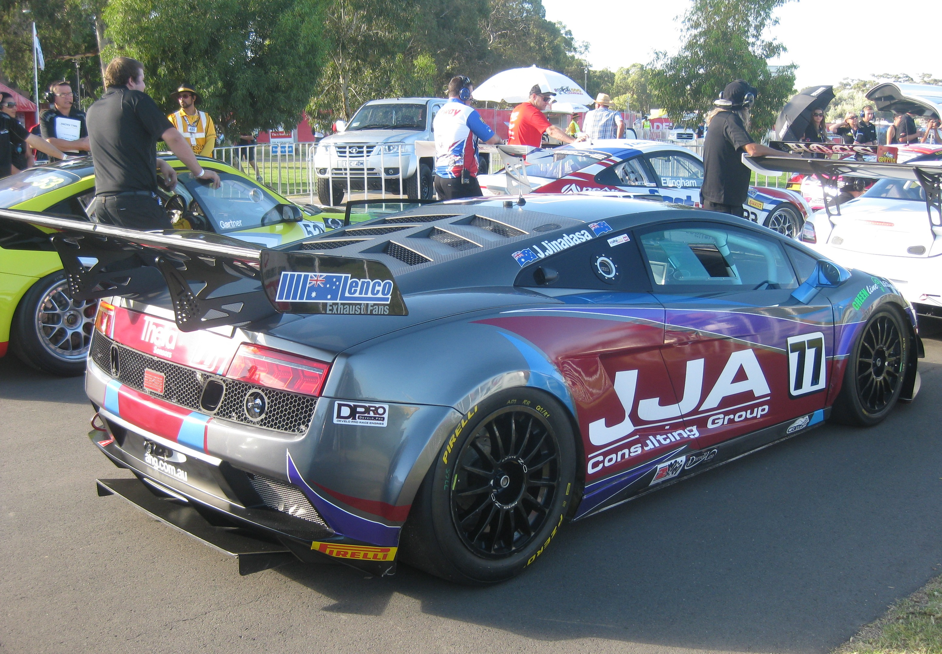 The Lamborghini Gallardo LP560-4 of Jan Jinadasa at the opening round of the 2015 Australian GT Championship